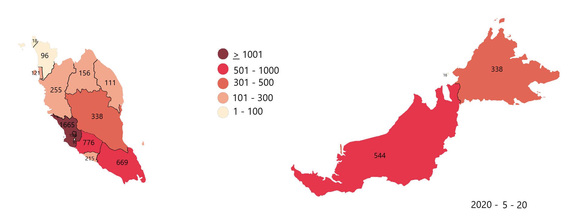 Malaysia Covid-19 cases by states